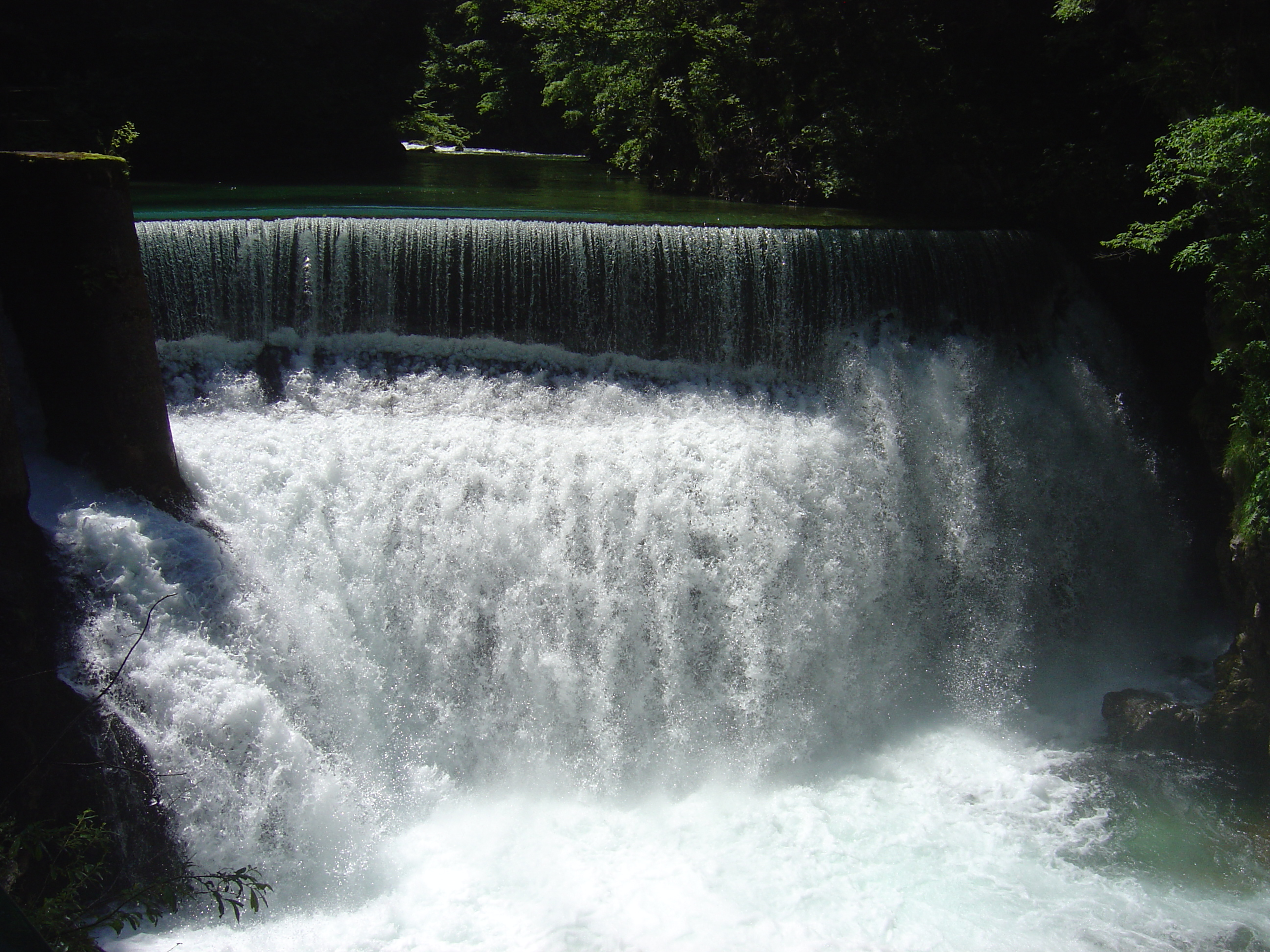 Unidentified waterfall near Kranj, Slovenia